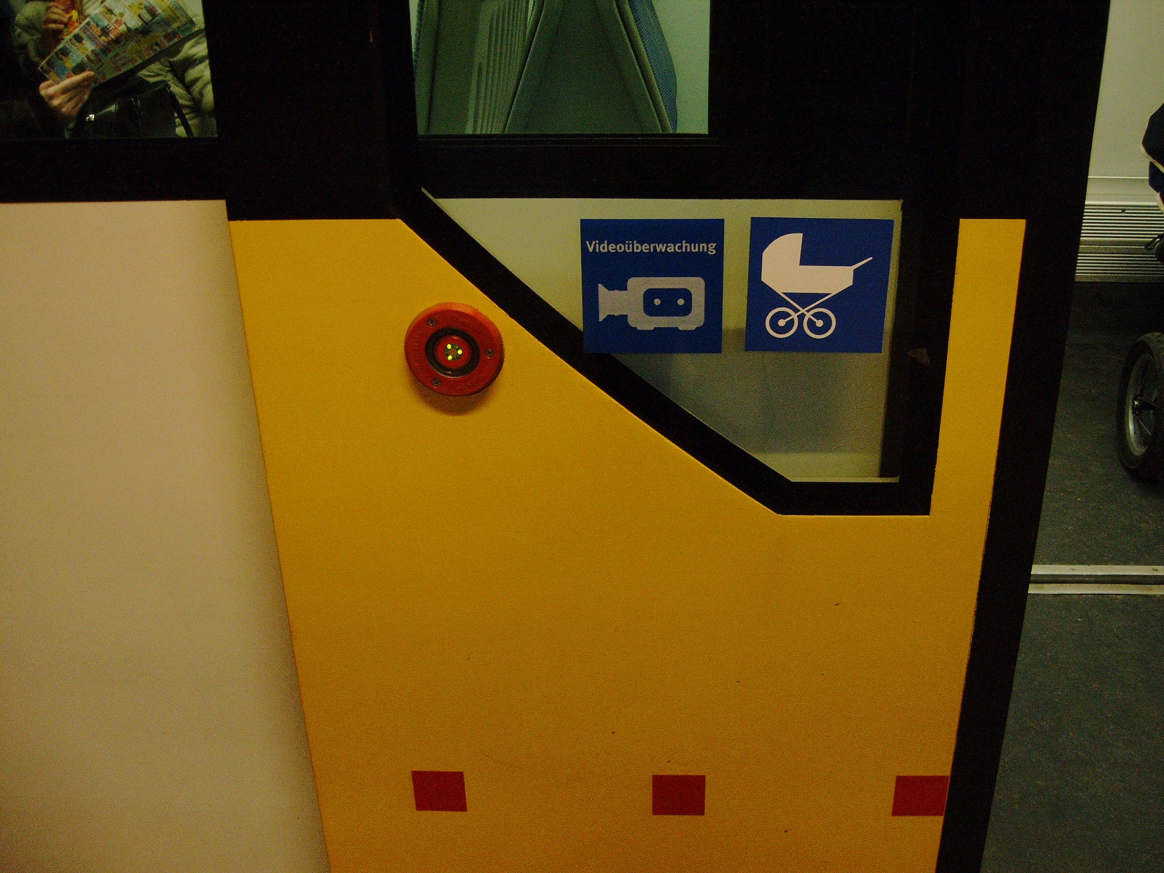 The door opens by touch Street train in bremen BSAG Company